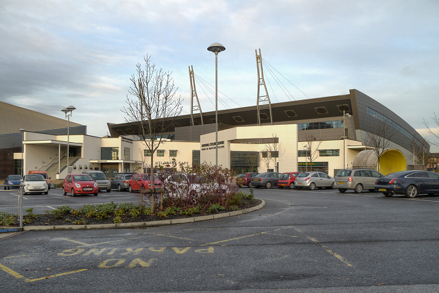 The National Indoor BMX Arena, near to Droylsden, Tameside, Great Britain.